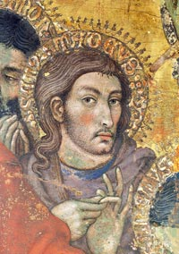 Taddeo di Bartolo, Self portrait Detail of Assumption of the Virgin